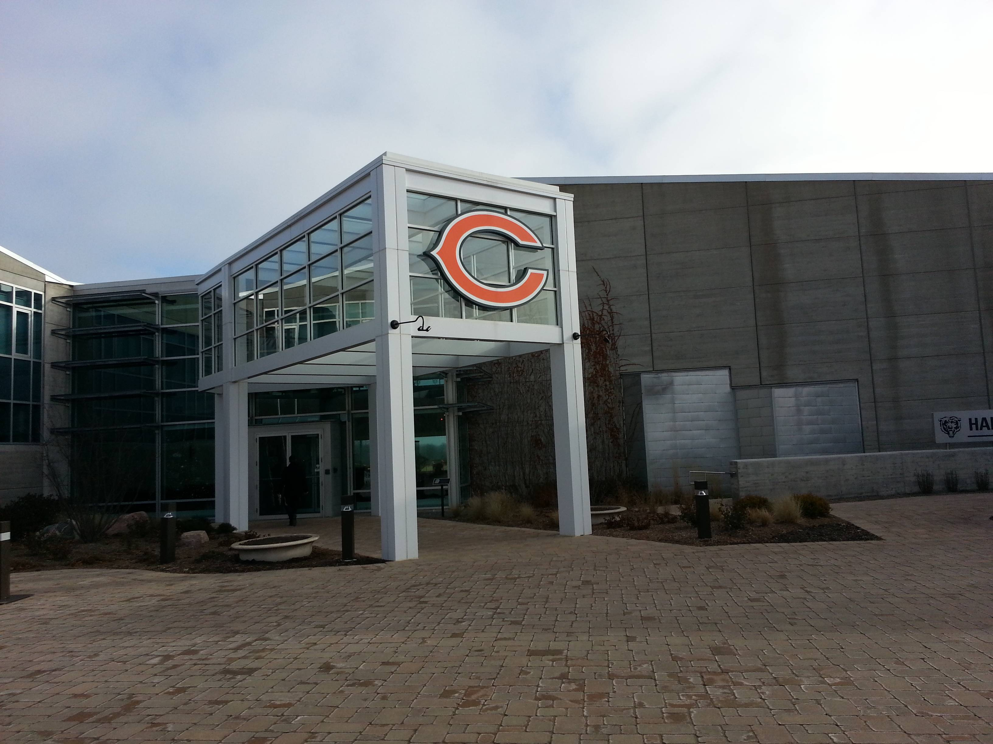 Halas Hall in Lake Forest, Illinois - the corporate office of the Chiicago Bears NFL franchise. Taken in 2014